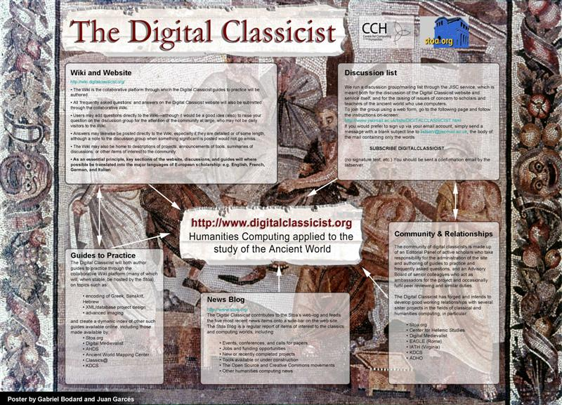 Digital Classicist poster from Digital Resources for the Humanities conference 2005